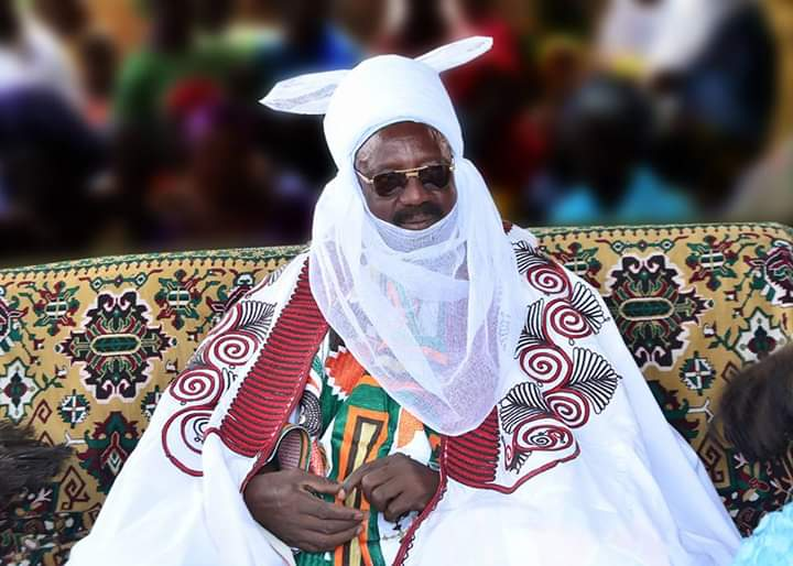 The Emir of Okuta Town, Baruten Local Government Area, Kwara Star, Nigeria. During the Okuta Gaani festival 2018. This is an image with the theme "Play" from: Nigeria